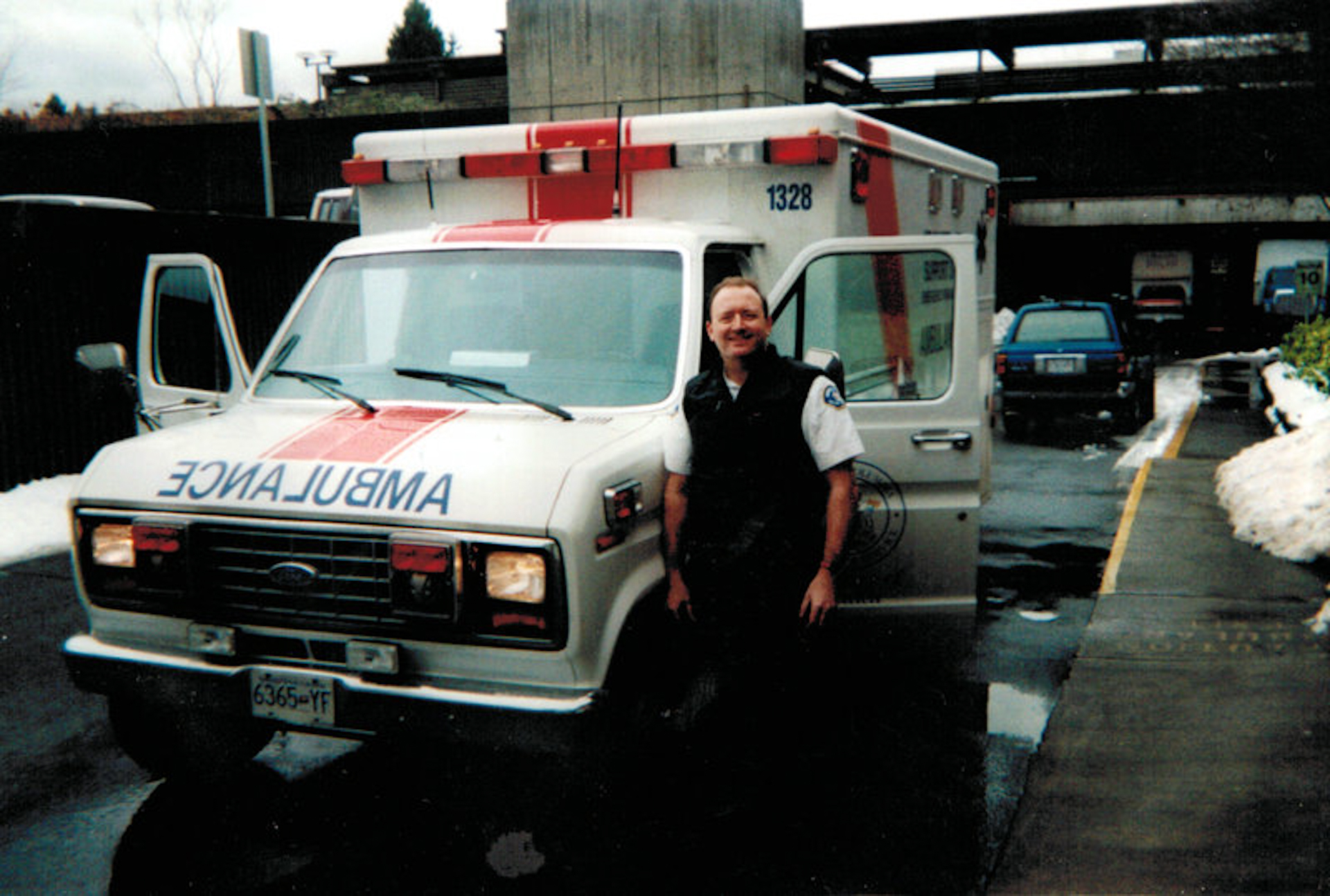 Tim Jones in front of his Ambulance in North Vancouver